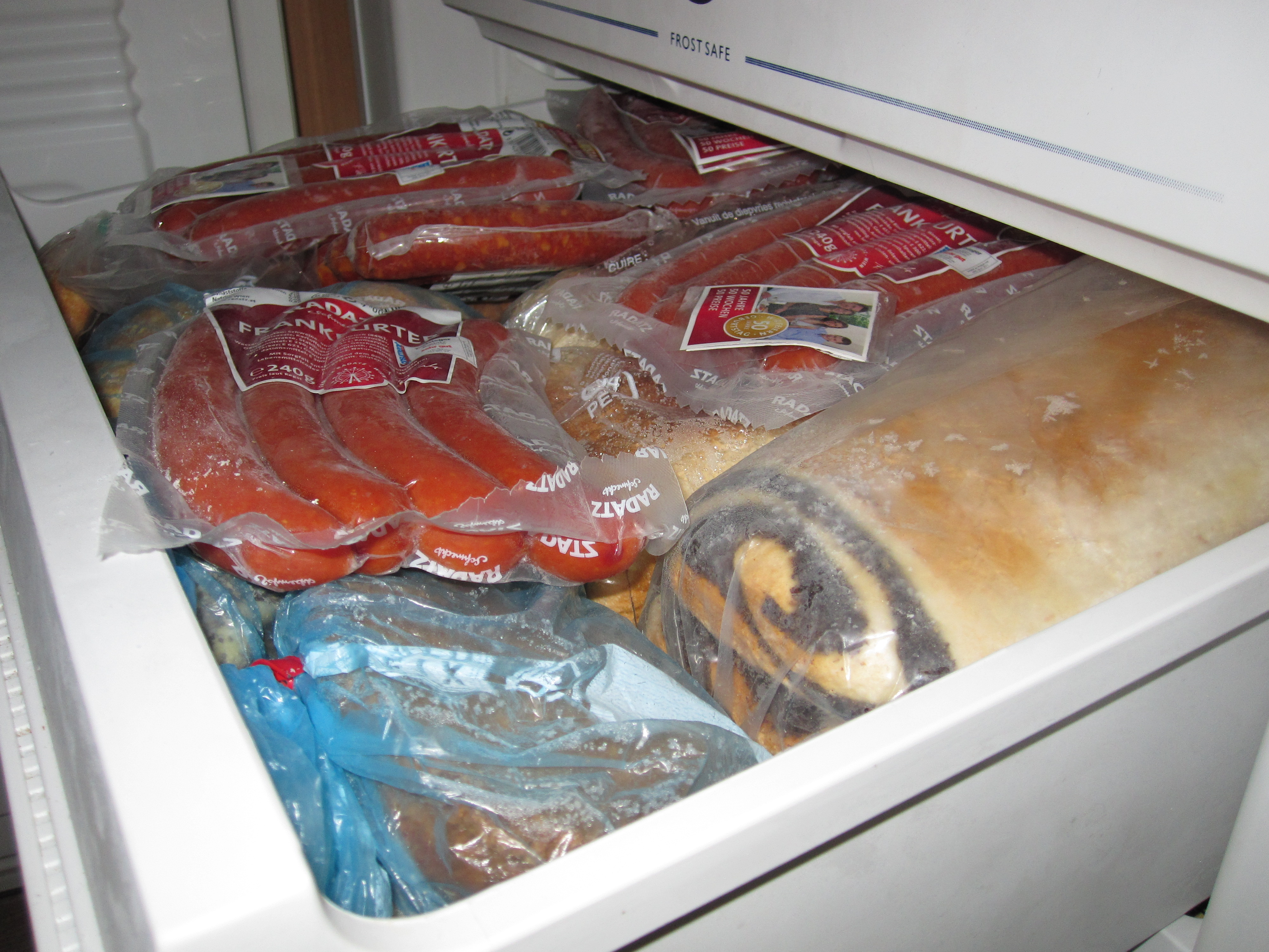 freezer drawer full groceries.